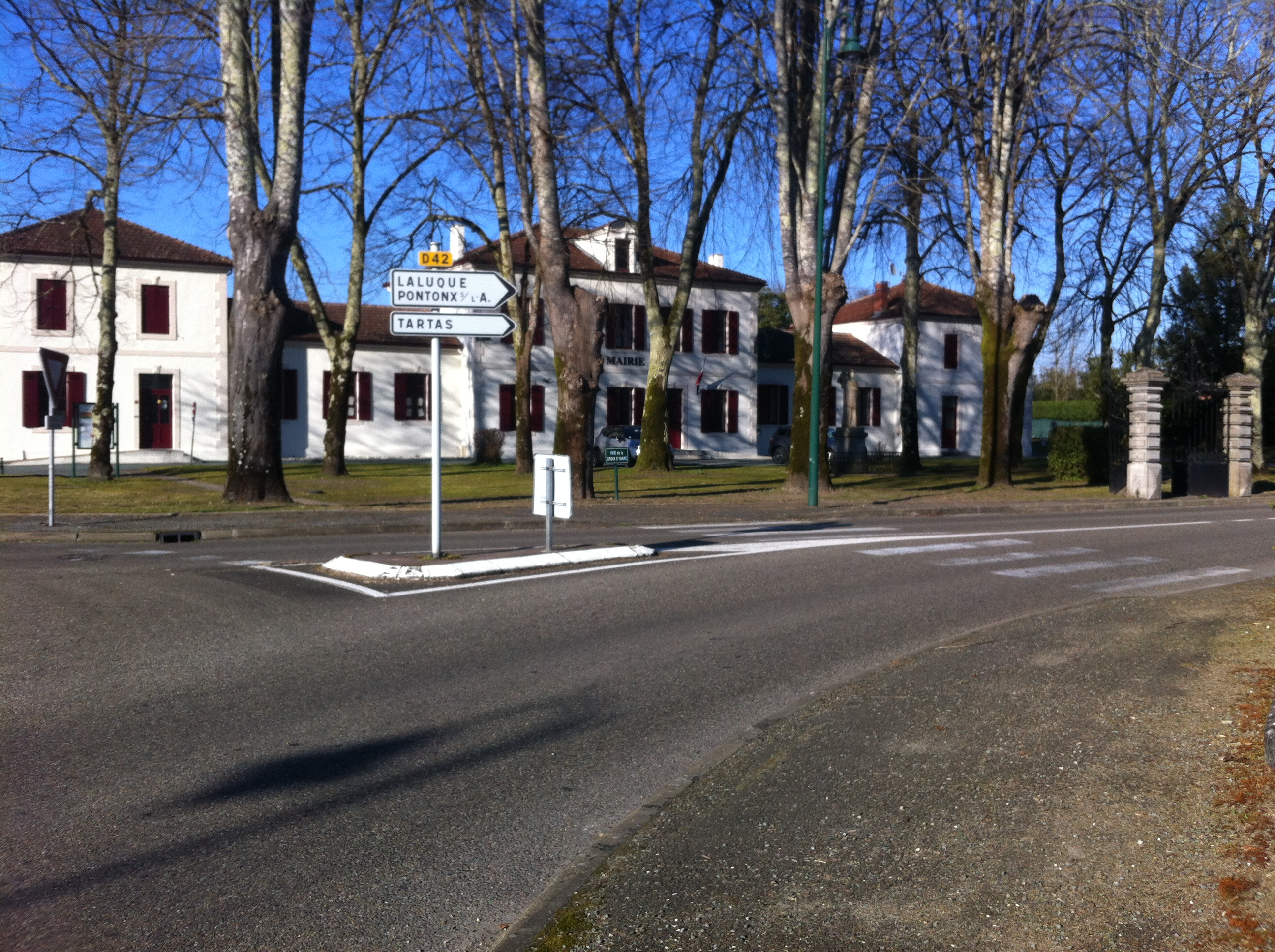 "Mairie" of Taller